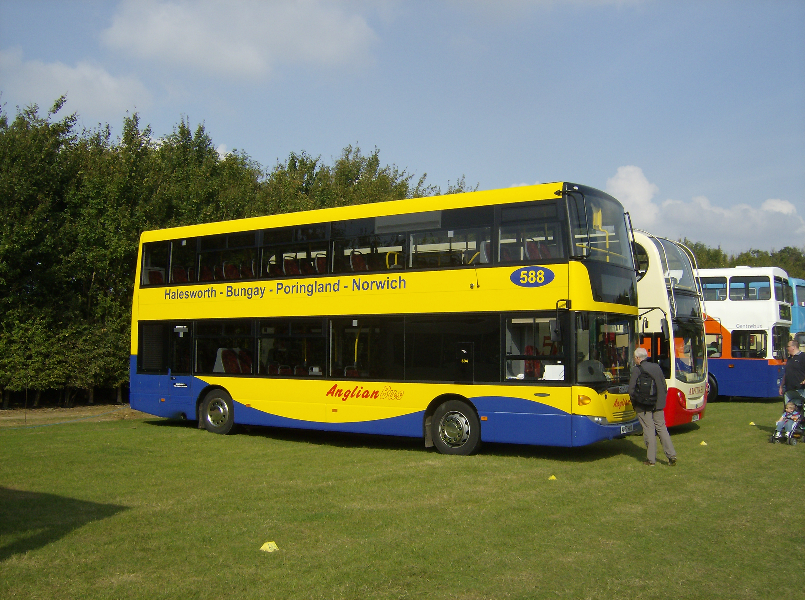 Anglian Bus' 504 (HD57 HCD), a Scania OmniCity at Showbus 2008 in Duxford.